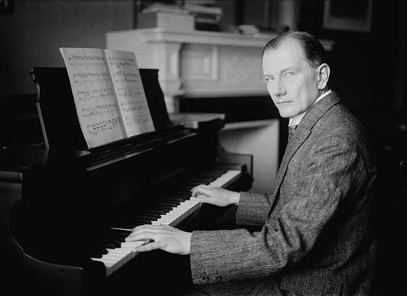 Ernő Dohnányi (1877 - 1960), a Hungarian conductor, composer, and pianist